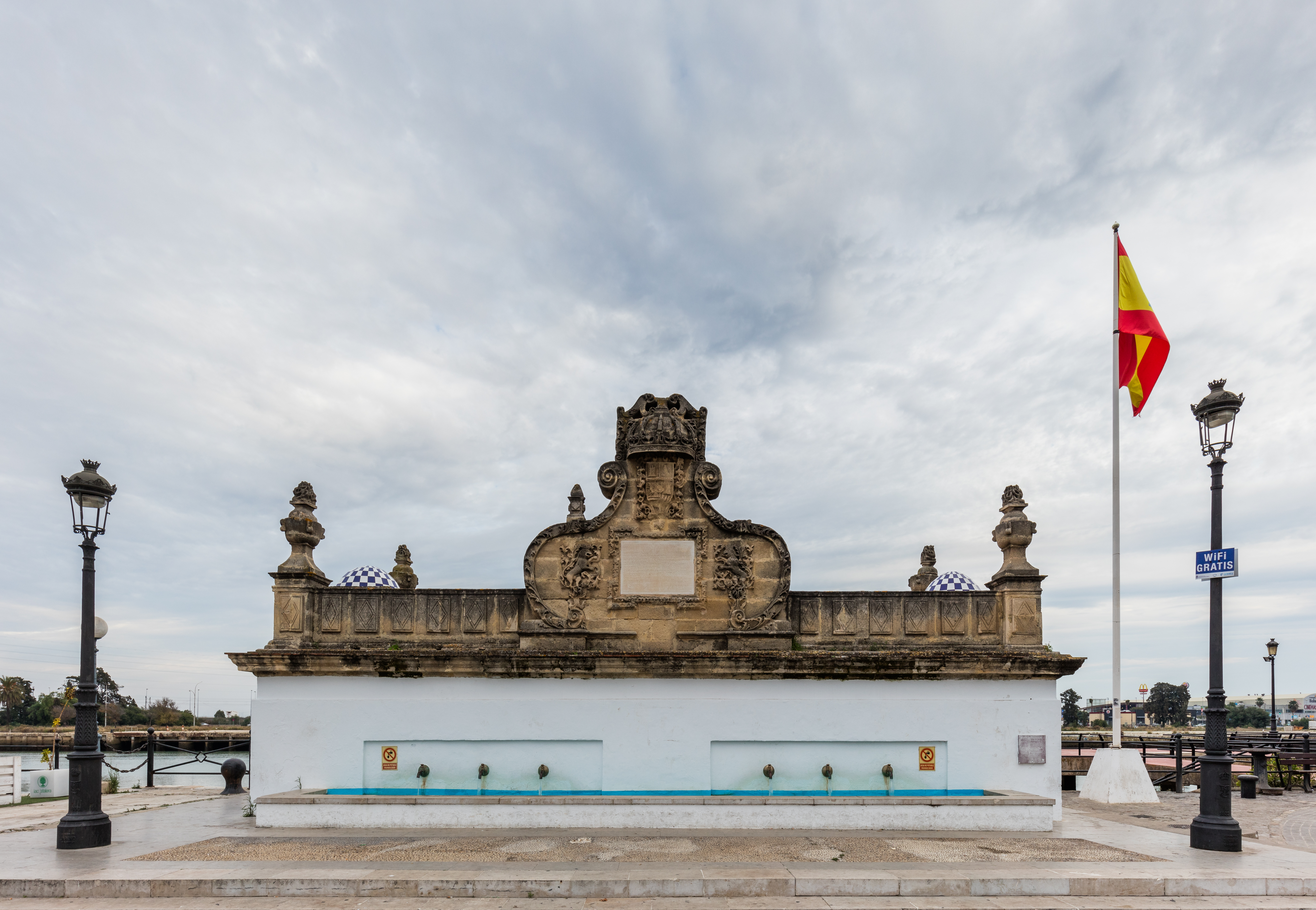 Fountain of Las Galeras, El Puerto de Santa María, Cádiz, Spain